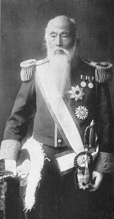 Kiyotsuna Kuroda